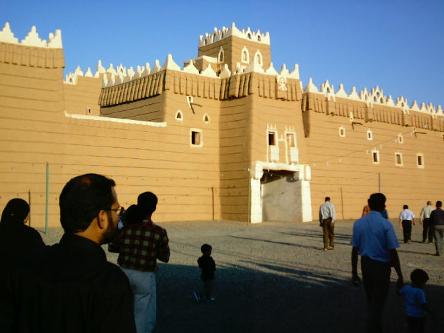 Najran Fort, Saudi Arabia